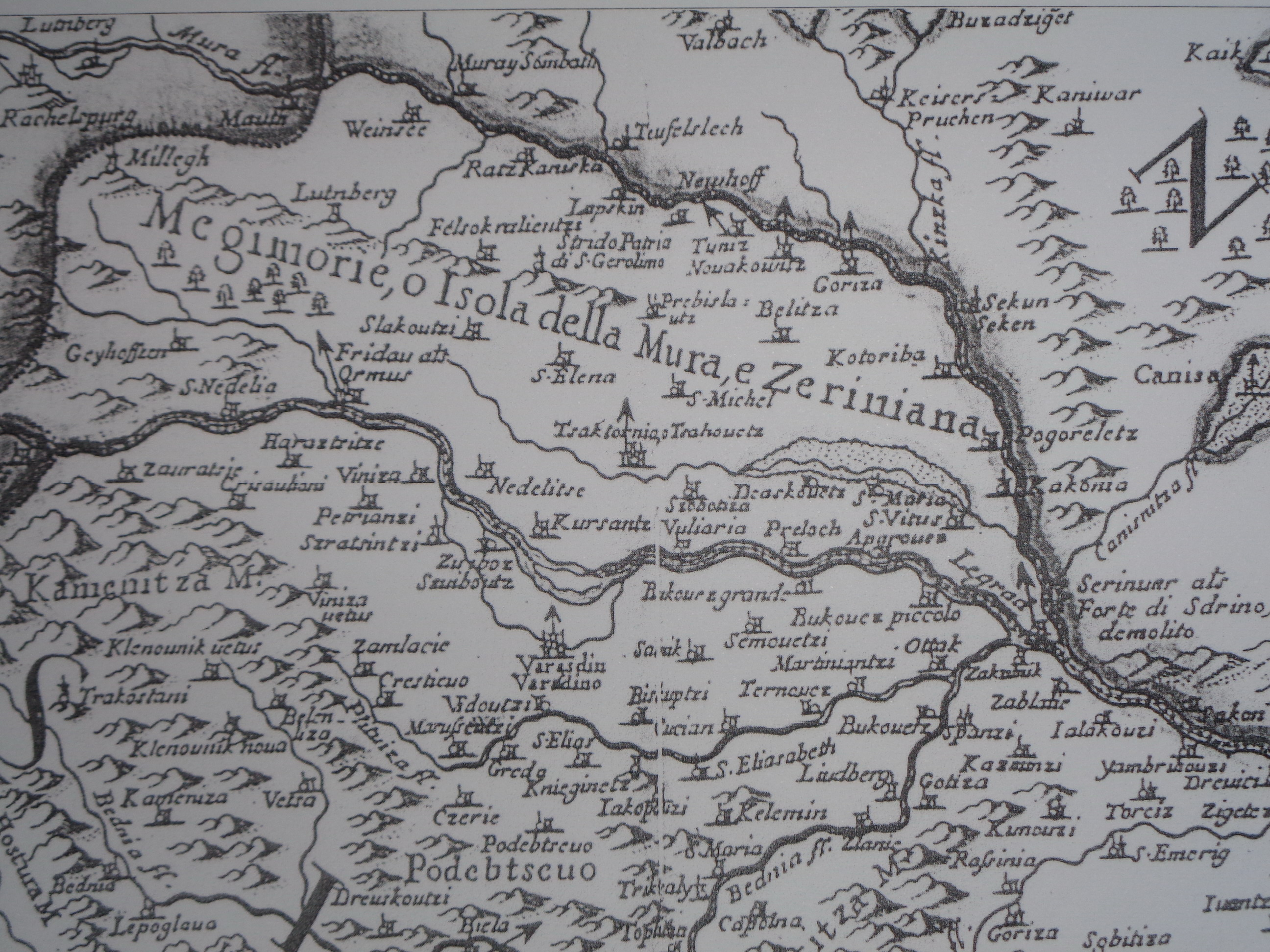 Old map of Medjimurie County, Croatia, made by Giacomo Cantelli from Rome, Italy (1690)